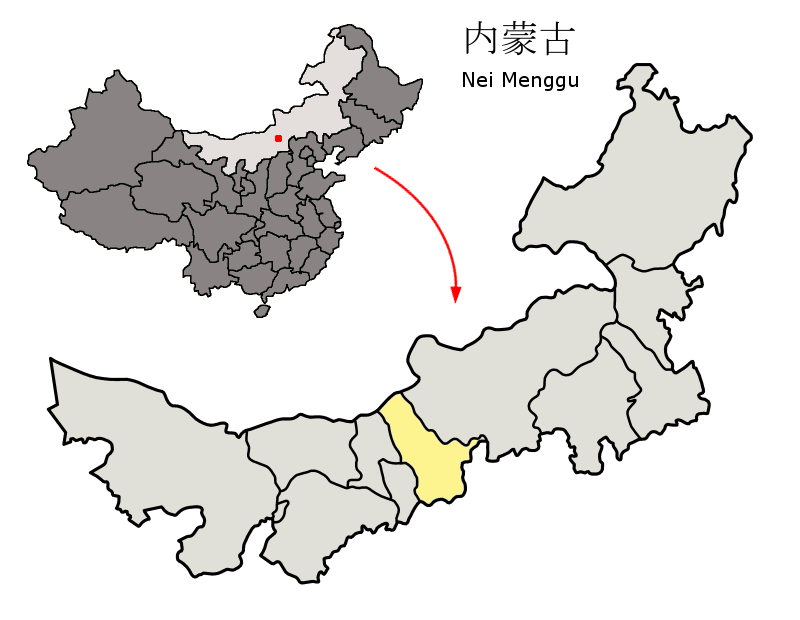 Location of Ulaan Chab Prefecture (yellow) within Inner Mongolia Autonomous Region of China Map drawn in november 2007 using various sources, mainly : Inner Mongolia Autonomous Region administrative regions GIS data: 1:1M, County level, 1990 Inner Mongolia Counties map from